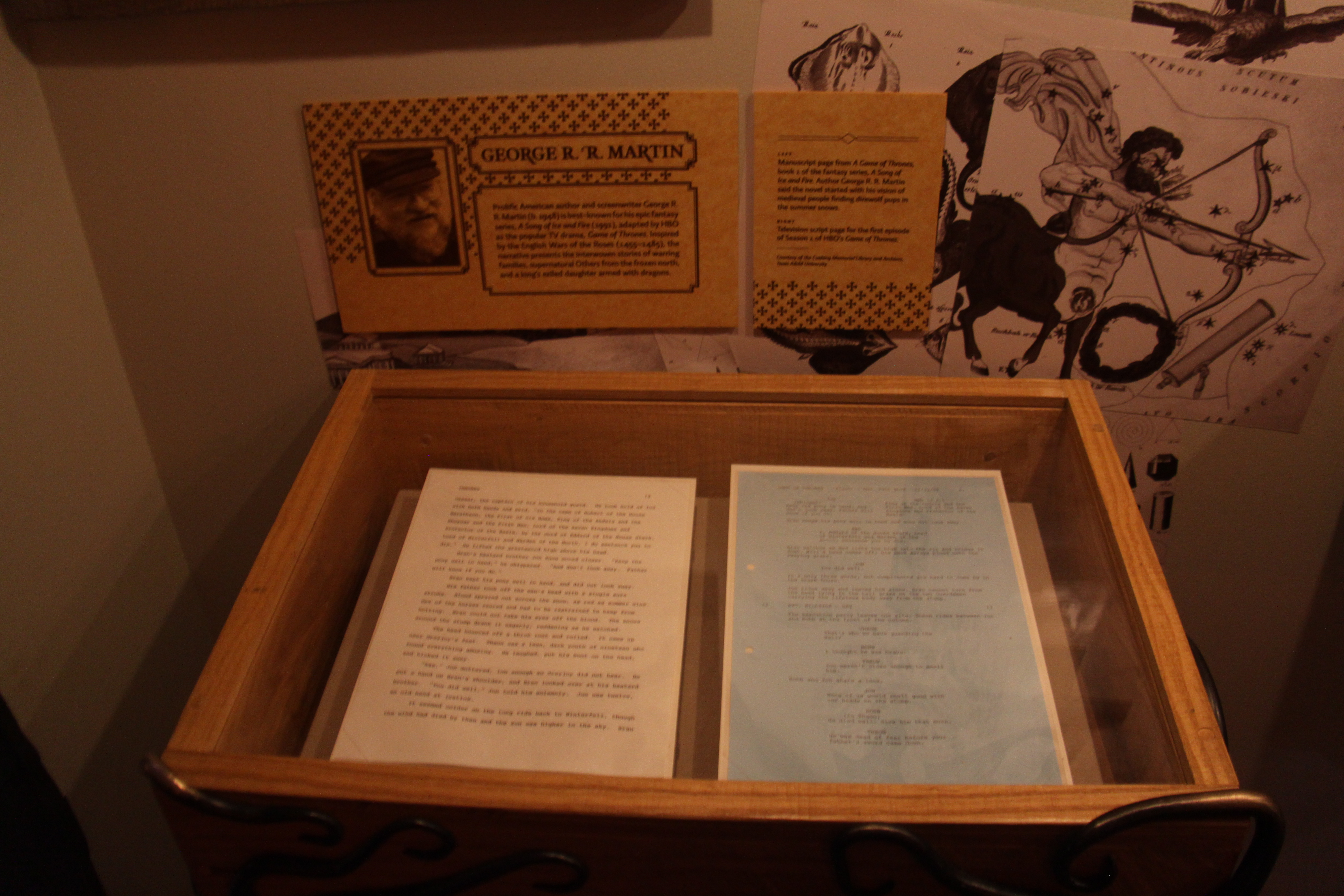 displayed at Fantasy: Worlds of Myth and Magic, Experience Music Project/Science Fiction Hall of Fame, Seattle.